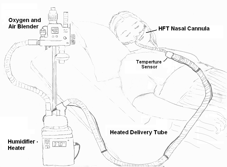 Sketch of heated humidified high-flow therapy